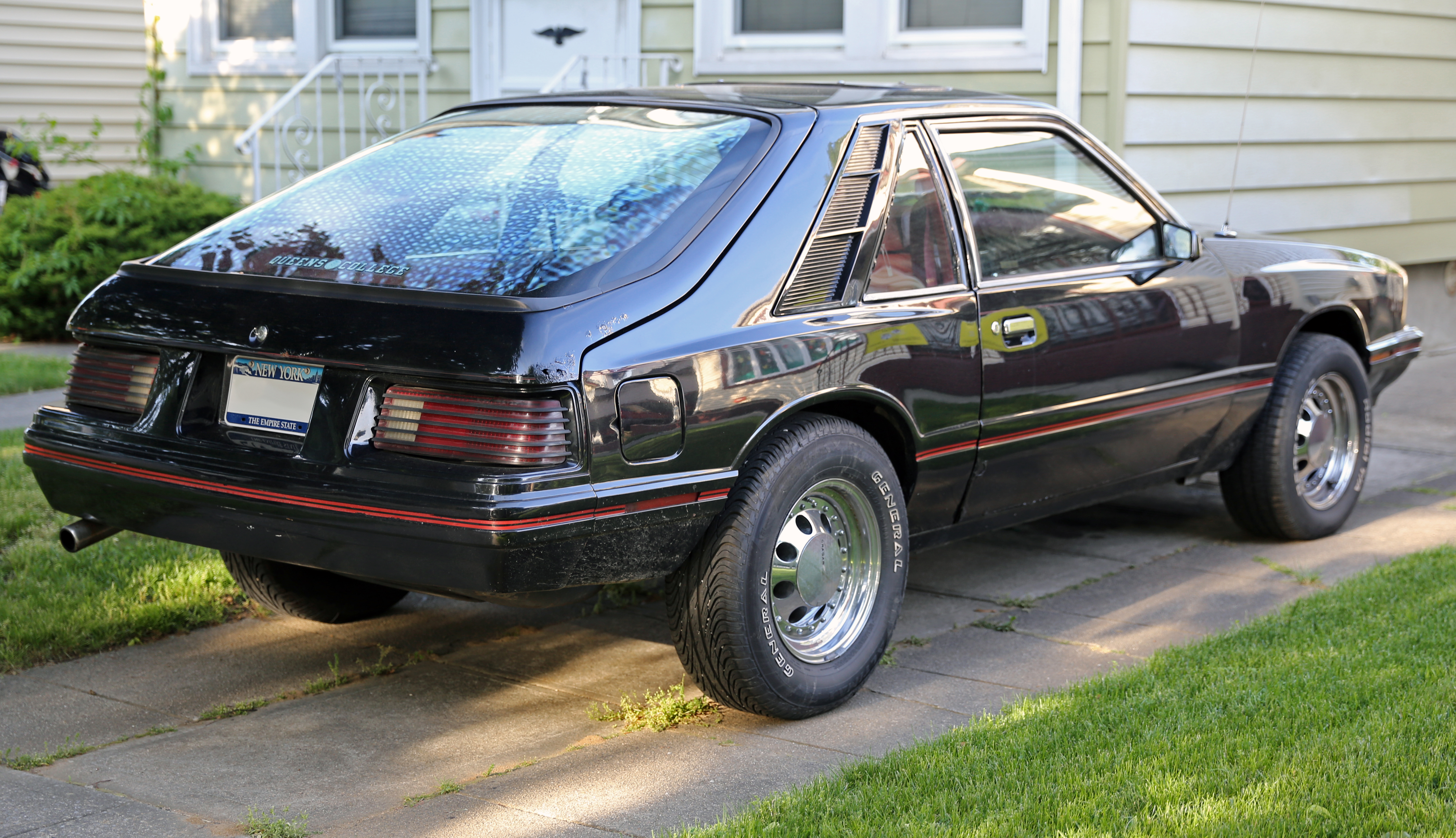 Rear right view of a 1980s "Bubbleback" Mercury Capri with cheap non-standard wheels.